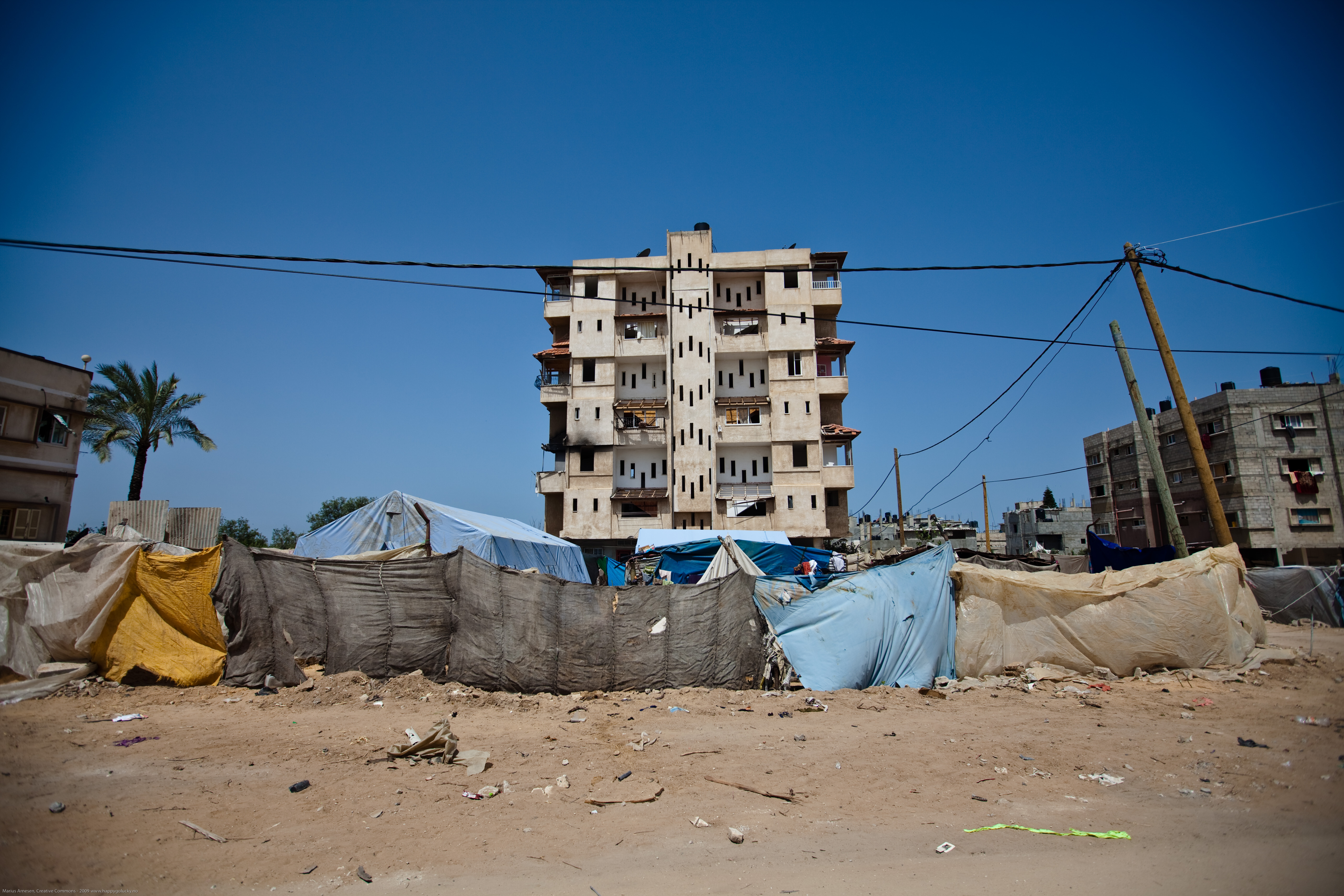 [1]Gaza 2009 Project by Marius Arnesen is licensed under a Creative Commons Attribution-Share Alike 3.0 Norway License.